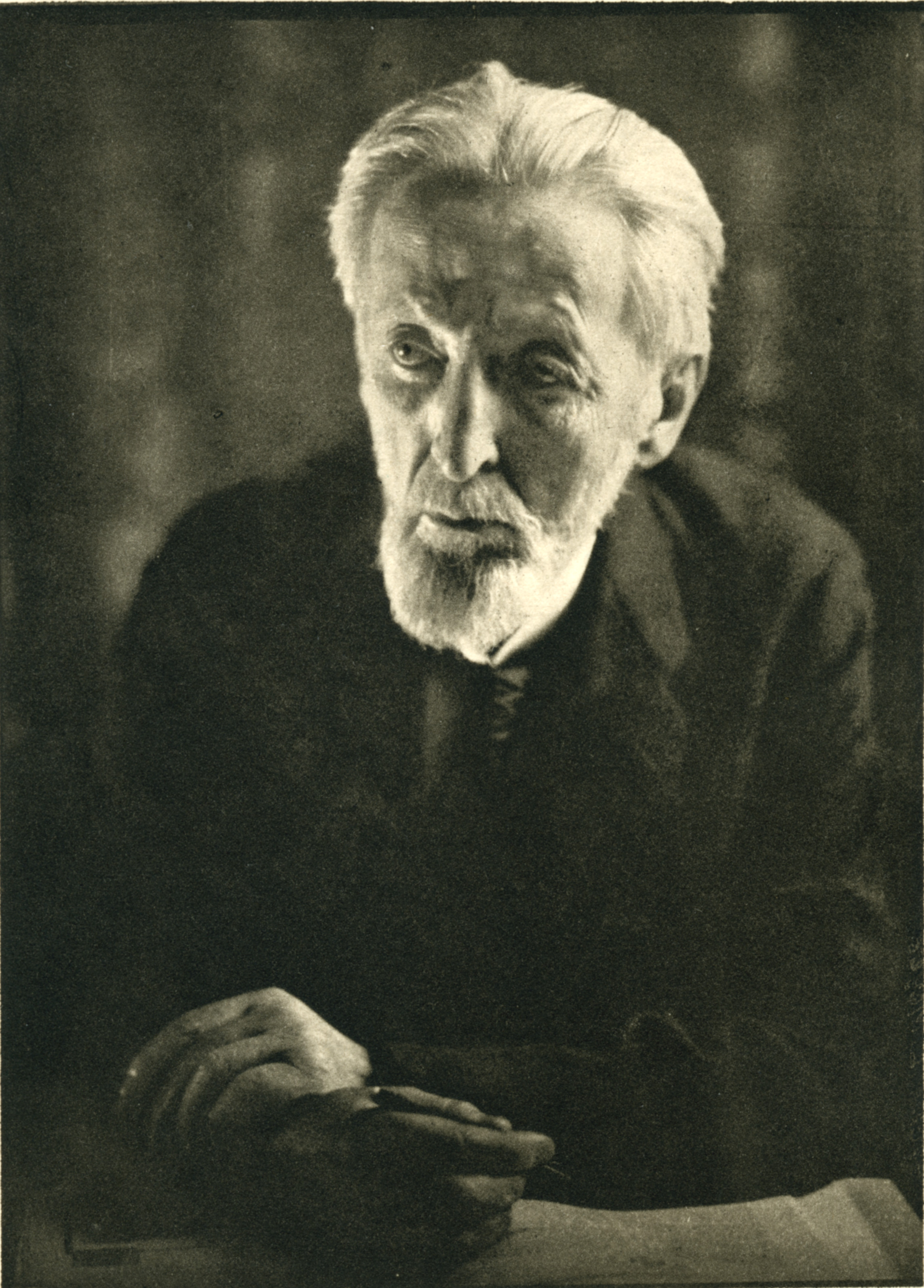 Photography of Hans Horst Meyer